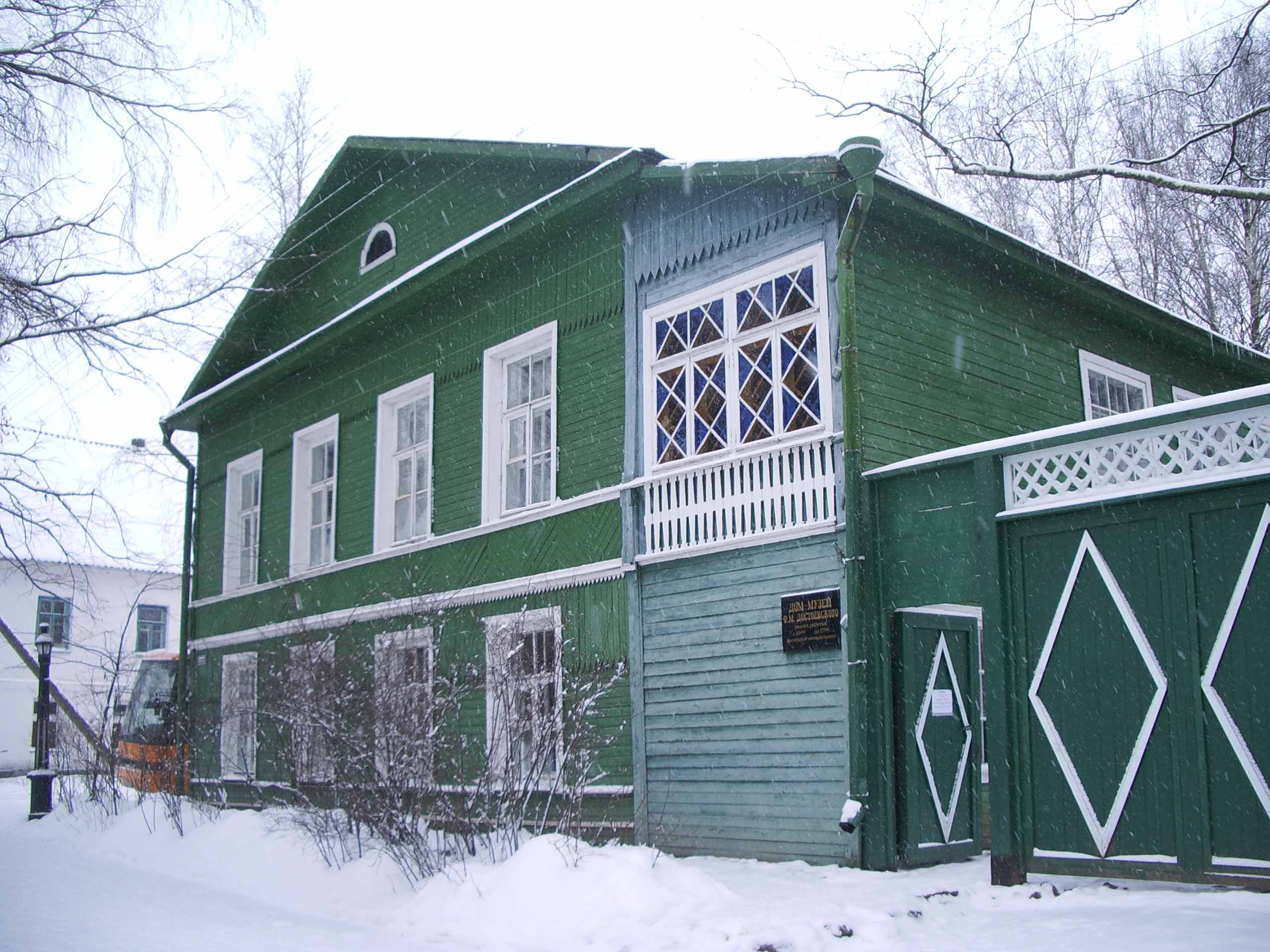 House of Dostoevsky in Staraya Russa. Novgorod oblast